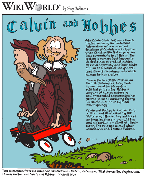 WikiWorld comic based on articles about John Calvin, Thomas Hobbes and the Calvin and Hobbes comic strip.